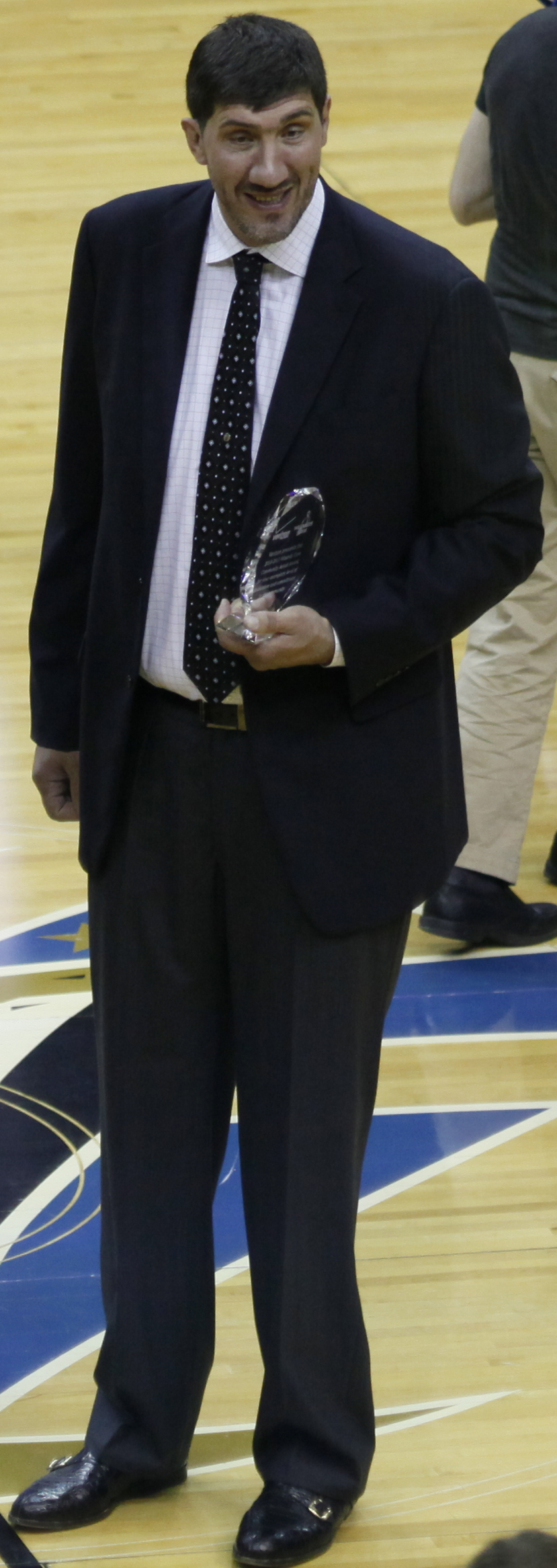 Gheorghe Mureşan at a Washington Wizards home game on November 6, 2010